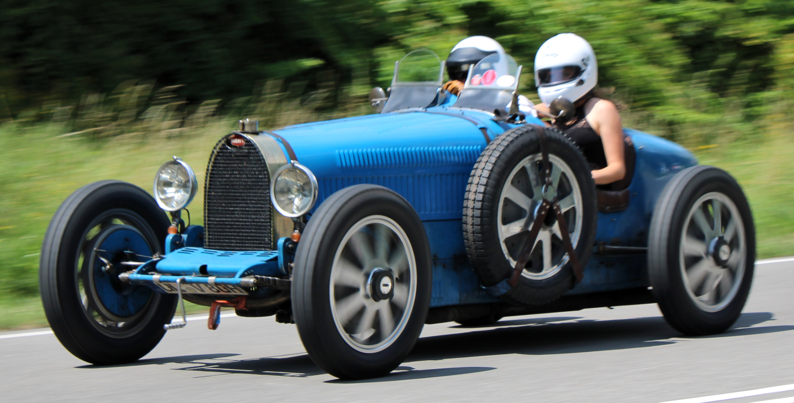 Bugatti 51 (1932) at Solitude Revival 2019